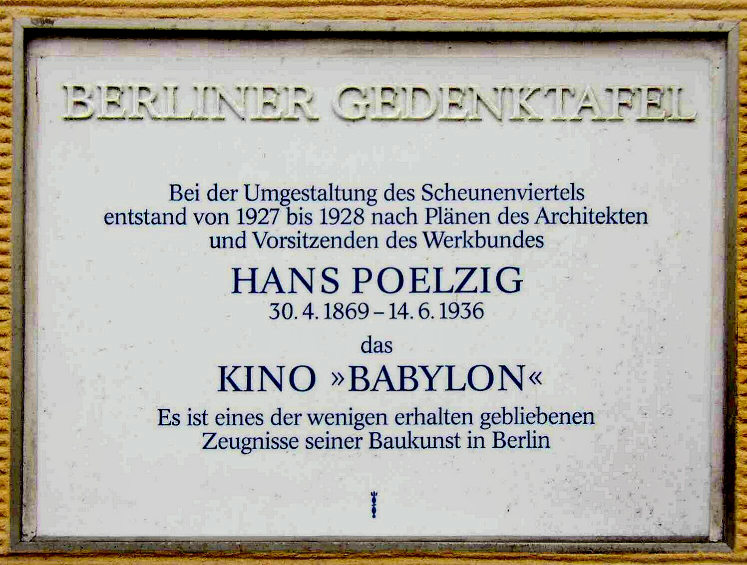 Berlin memorial plaque, Hans Poelzig, Rosa-Luxemburg-Straße 30, Berlin-Mitte, Germany Koordinate:52°31′33″N 13°24′41″E / 52.52583°N 13.41139°E